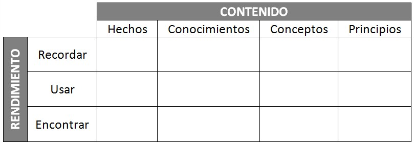 This image is an example of a performance/content matrix in Spanish regarding de Component Display Theory of M. David Merrill